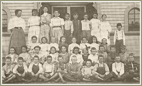 This is the Norwalk Grammar School in 1890 before 1900 in w.Norwalk, California. The picture is with teacher Cora Hargitt Johnson with her class. Hargitt School is named after her.